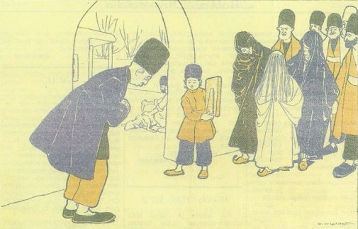 Molla Nasreddin magazine (on Azeri), published between 1906-1931 Respect to the new bride.